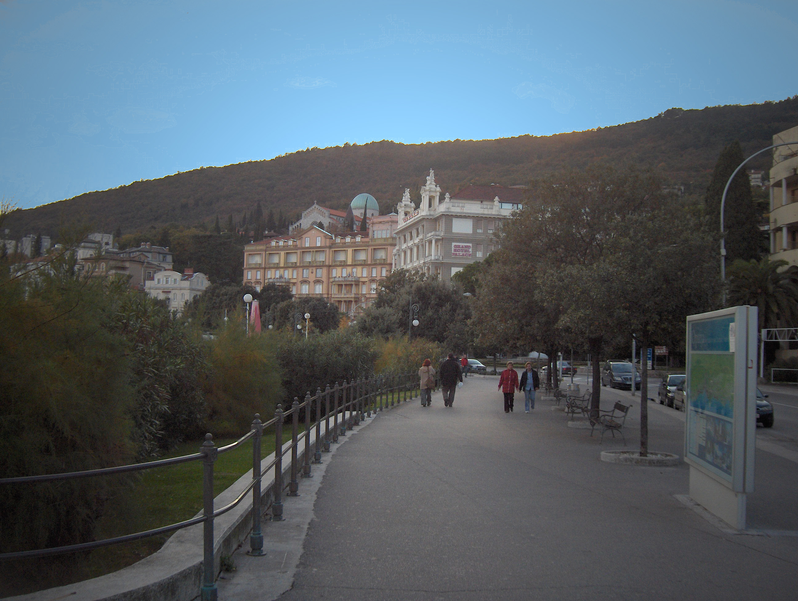 View on the Lungo Mare and the slopes of Mount Ucka in Opatija, Croatia